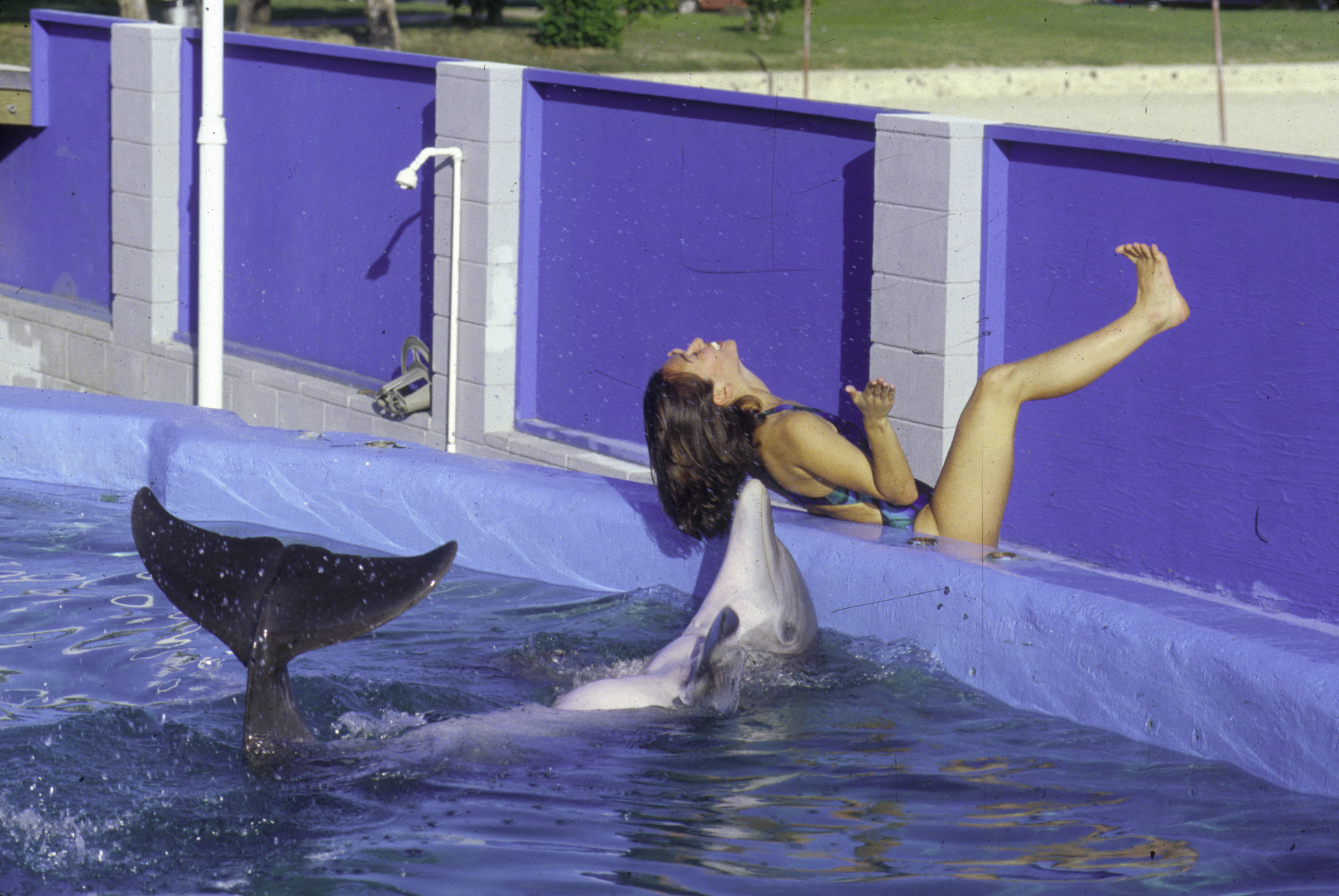 Dolphin imitates the behavior of a human by using its tail as an analogy for a leg. Bottlenose dolphin at Kewalo Basin Marine Mammal Laboratory in Honolulu.